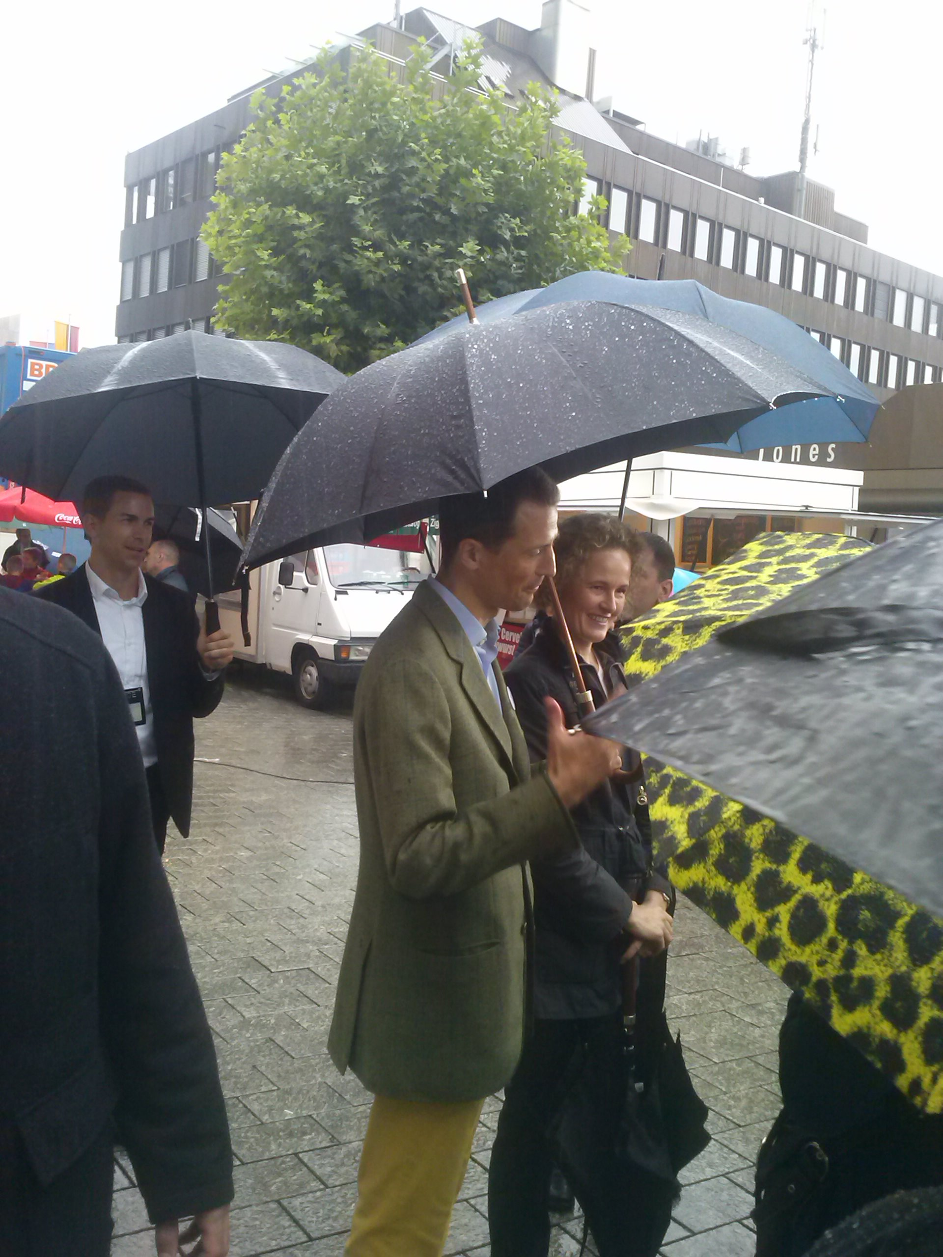 Their Serene Highnesses The Hereditary Princess Sophia and Prince Alois of Liechtenstein meeting the people of Liechtenstein on the Liechtenstein national holiday in Vaduz